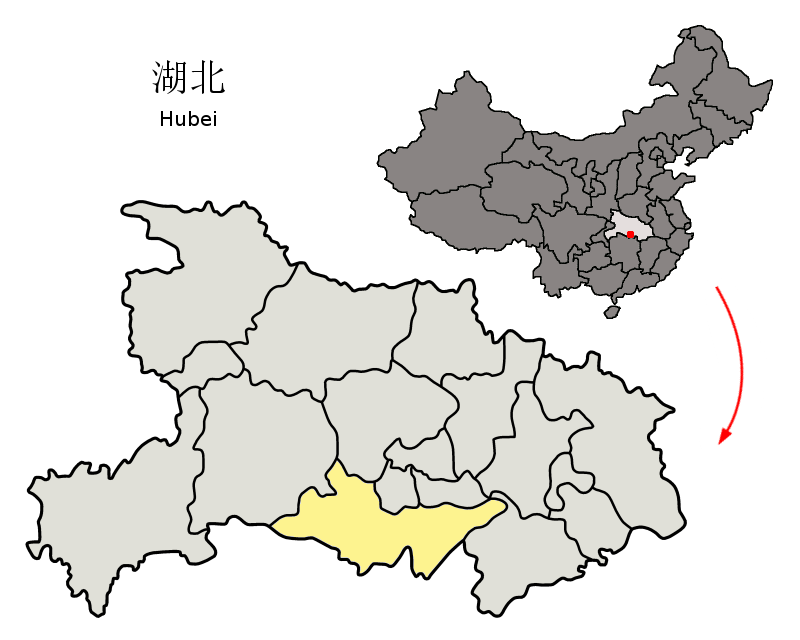 Location of Jingzhou Prefecture (yellow) within Hubei Province of China Map drawn in december 2007 using various sources, mainly : Hubei Province administrative regions GIS data: 1:1M, County level, 1990 Hubei Counties map from